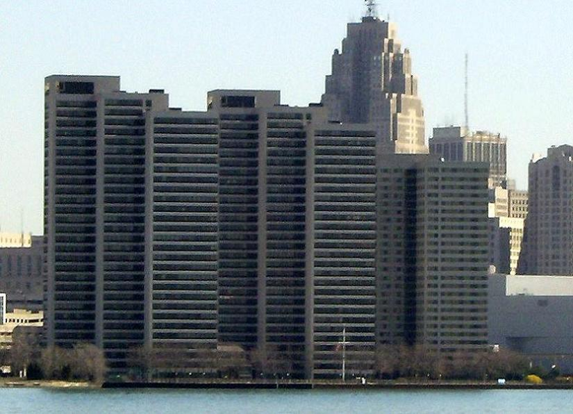 self made Category:Images of Detroit, Michigan